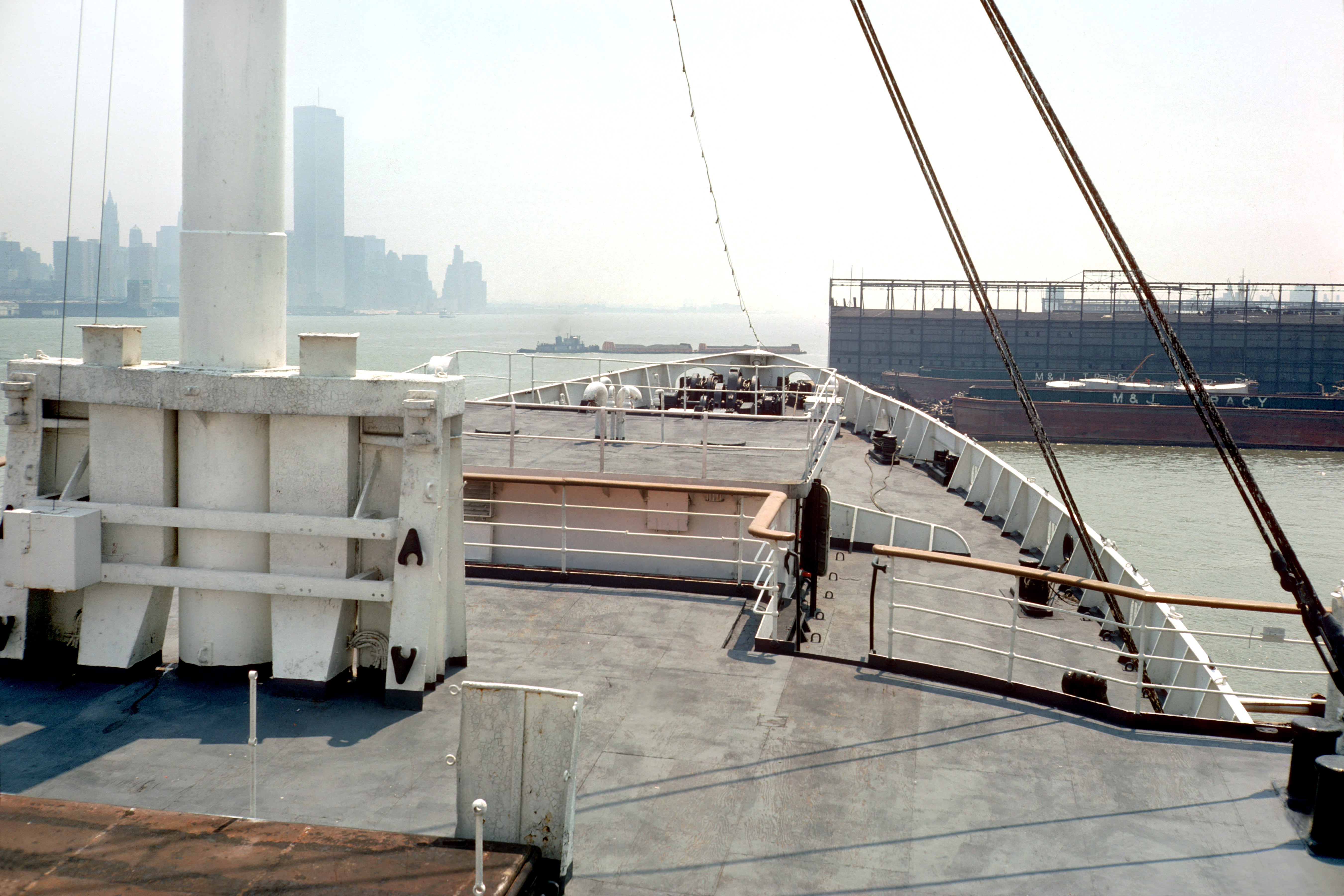 SS Stevens boat deck view of bow. Lower Manhattan, with World Trade Center towers, is visible in the background, across the Hudson River. SS Stevens was formerly cruise liner SS Exochorda of the New "4 Aces" fleet of American Export Lines The image was scanned from the original Kodachrome 25 (Daylight) 35mm film image. For other photos, see SS Stevens Gallery